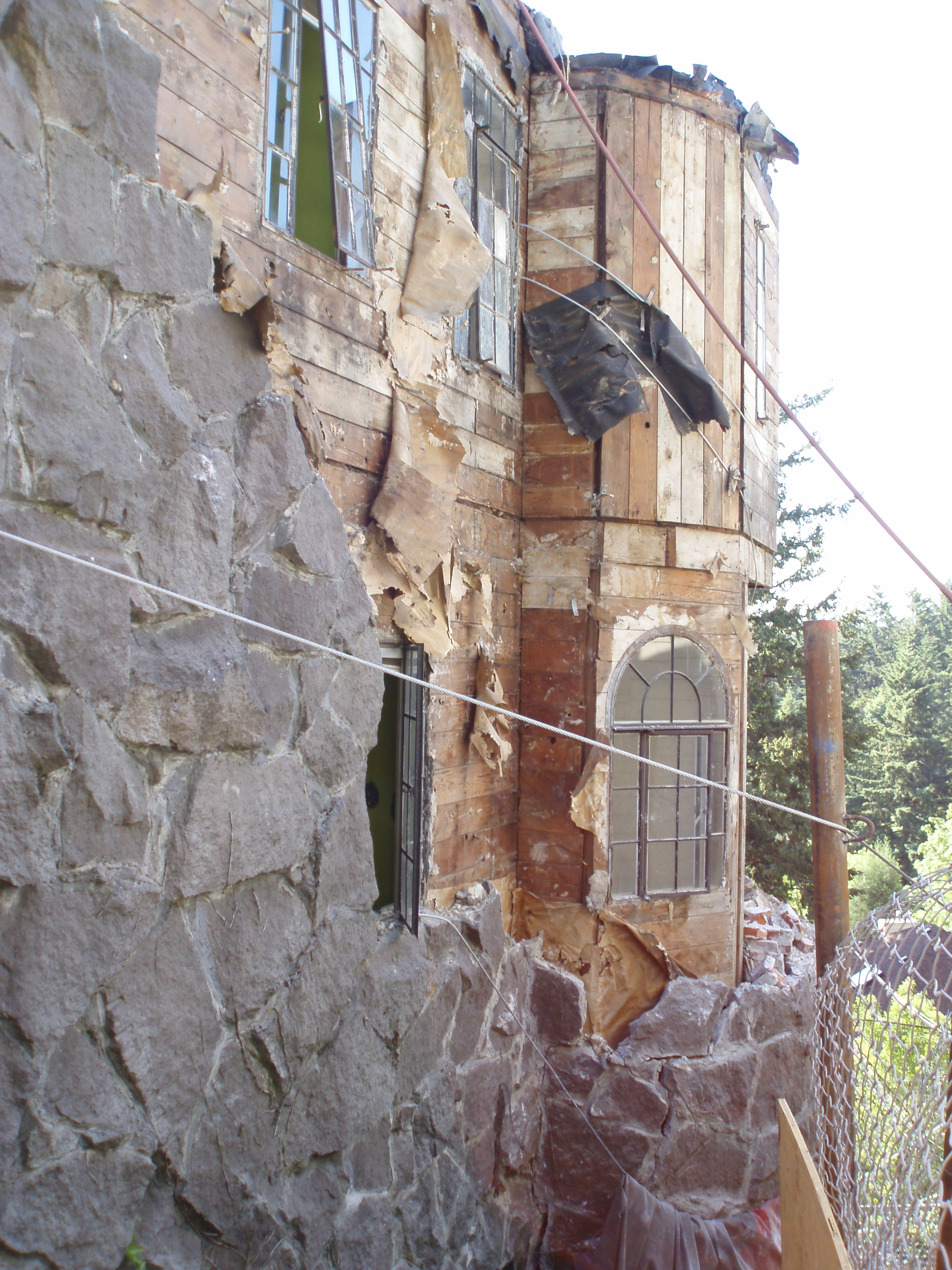 Canterbury Castle in Portland, Oregon, as it is demolished